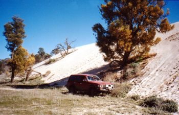 Photo of Snowdrift, in Wyperfeld National Park, west of Patchewollock, 2001.